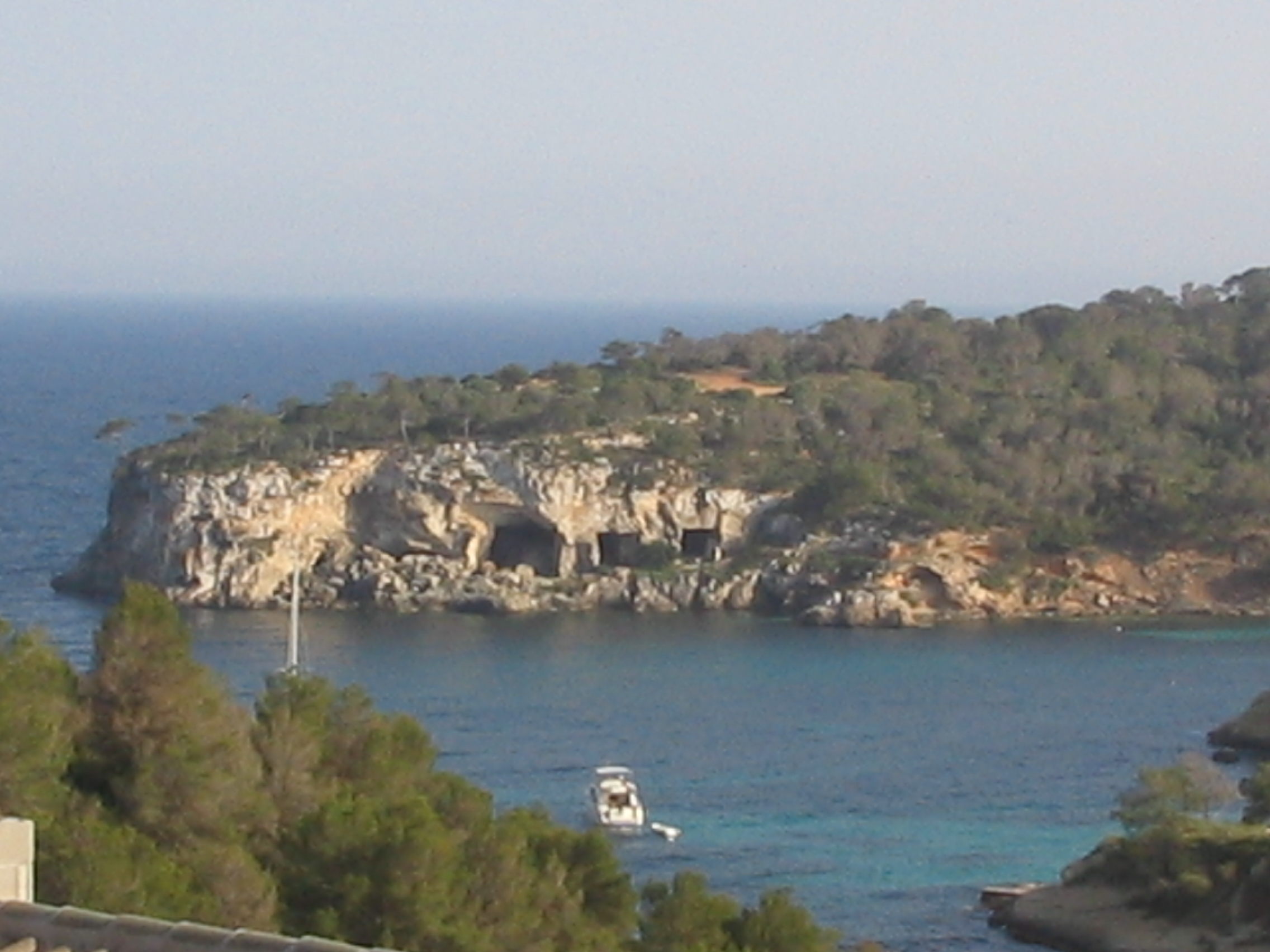 Caves of Portals Vells in Mallorca, Spain.